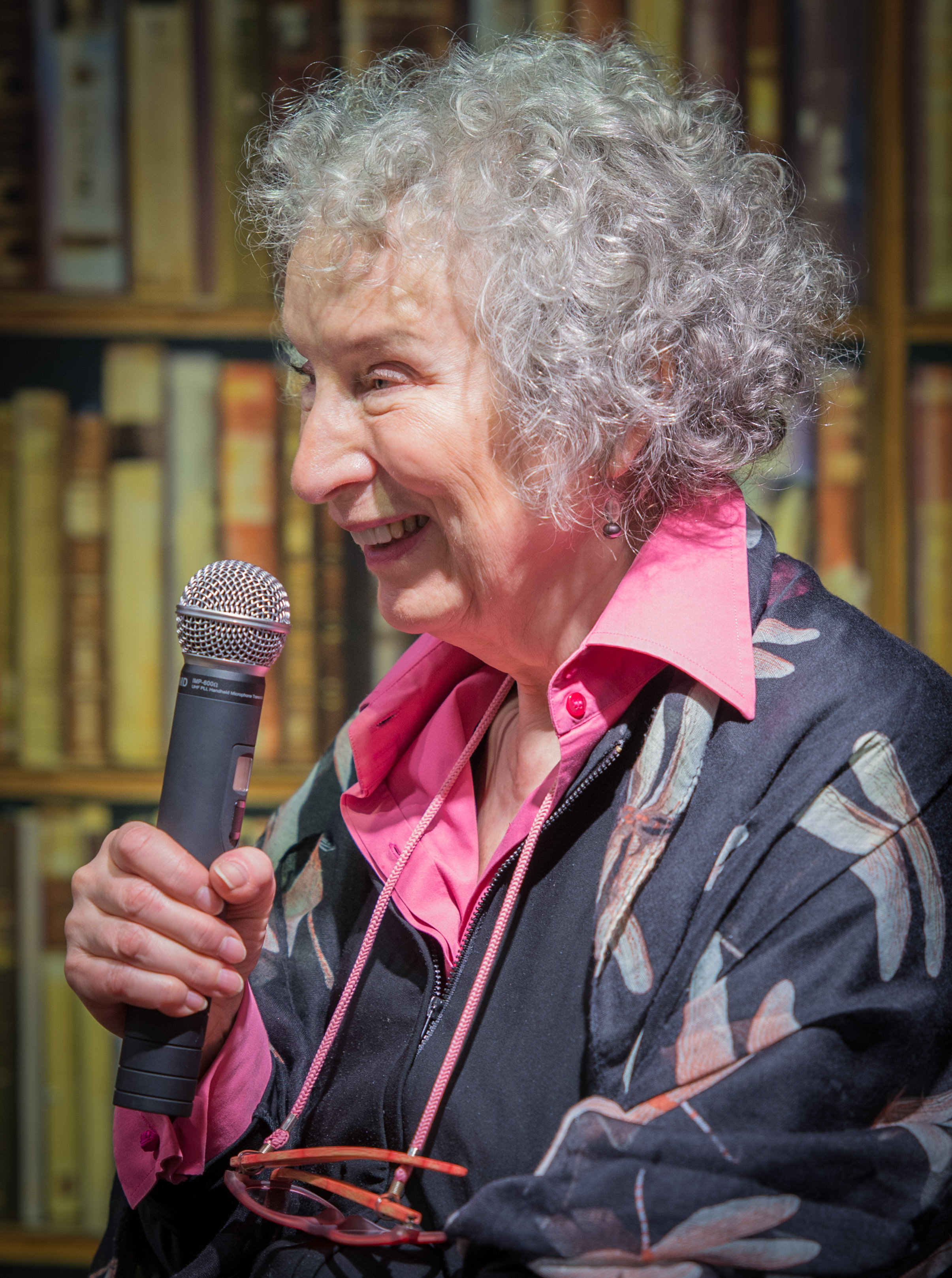 Margaret Atwood in Stockholm in June 2015.